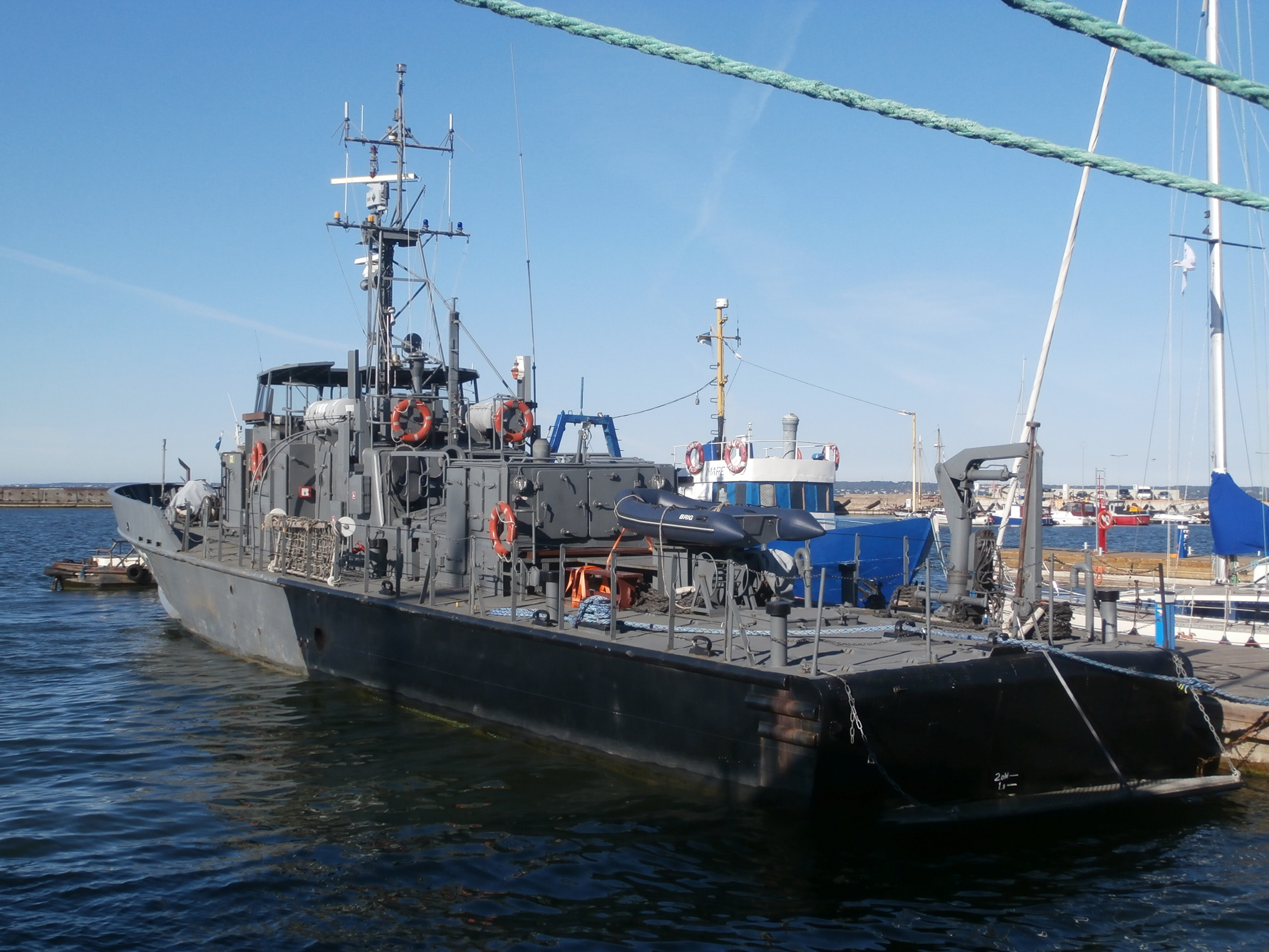 P422 Ristna at pier A1 in Lennusadam Tallinn 19 August 2015Eesti: Patrull-laev Ristna kai A1 ääres Tallinna Lennusadamas 19. augustil 2015